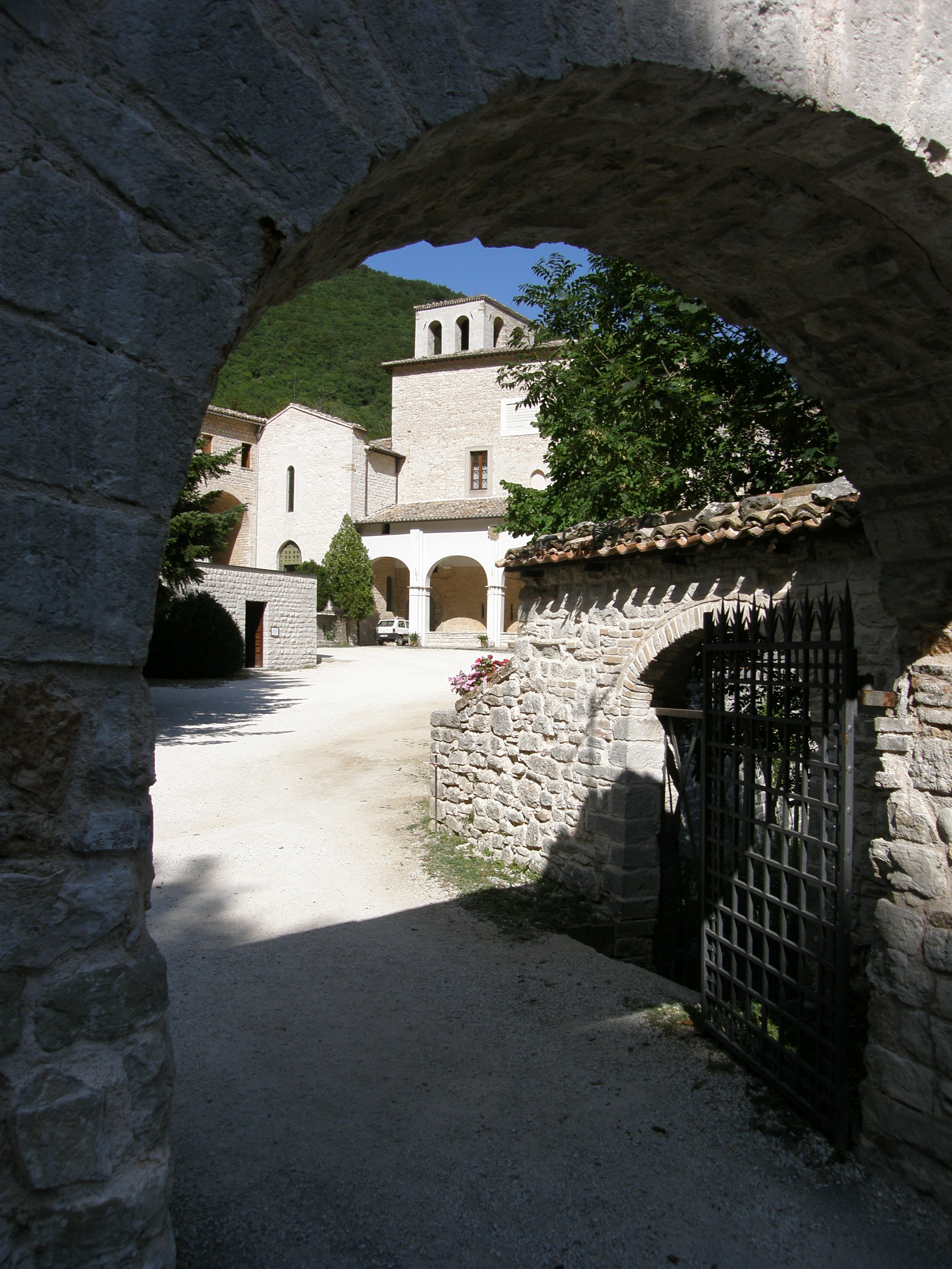 Serra Sant'Abbondio, Italy - Monastero di Fonte Avellana